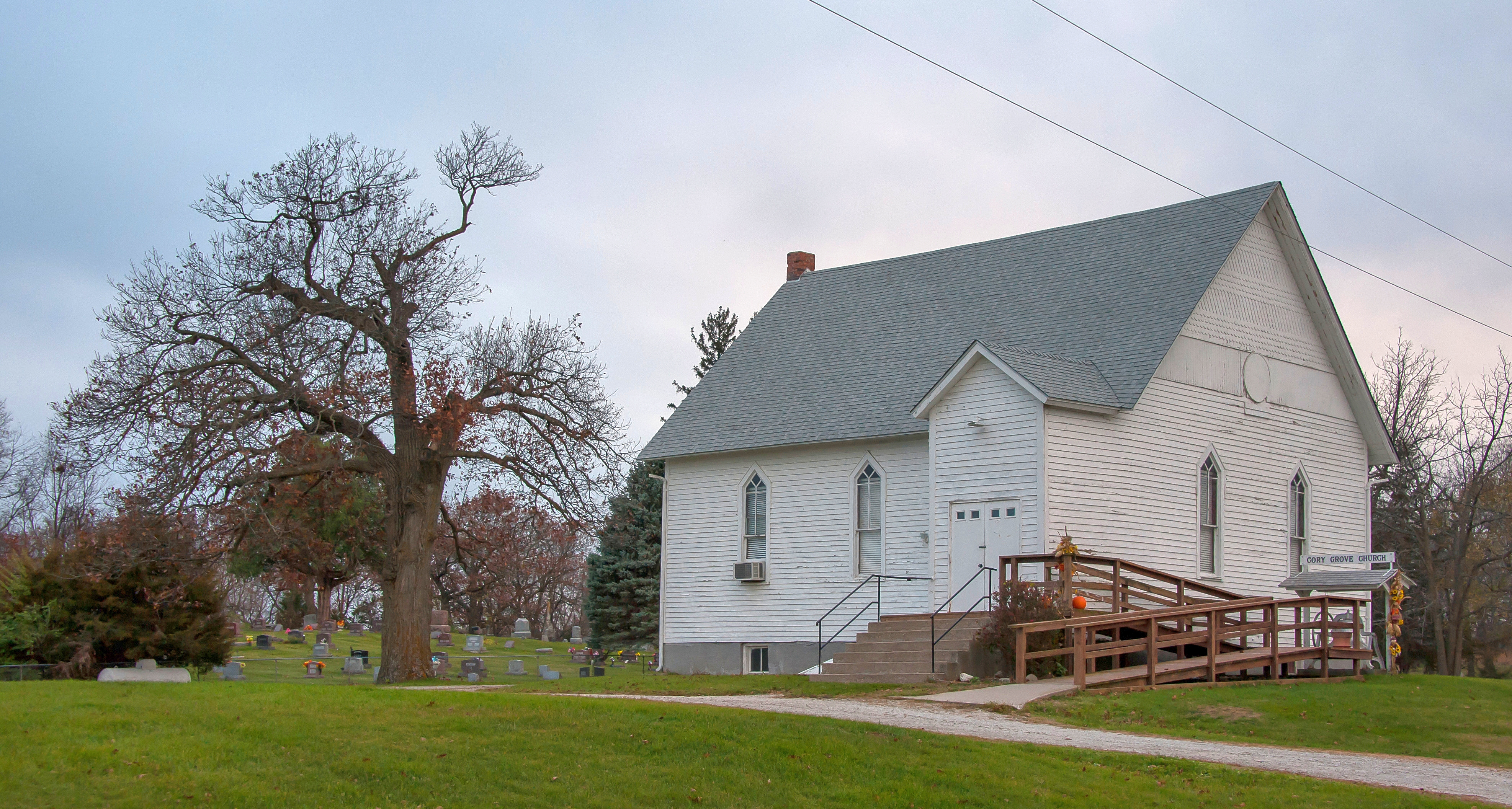 Cory Grove Church, Elkhart, Iowa